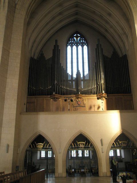 Flowers being prepared within Guildford Cathedral